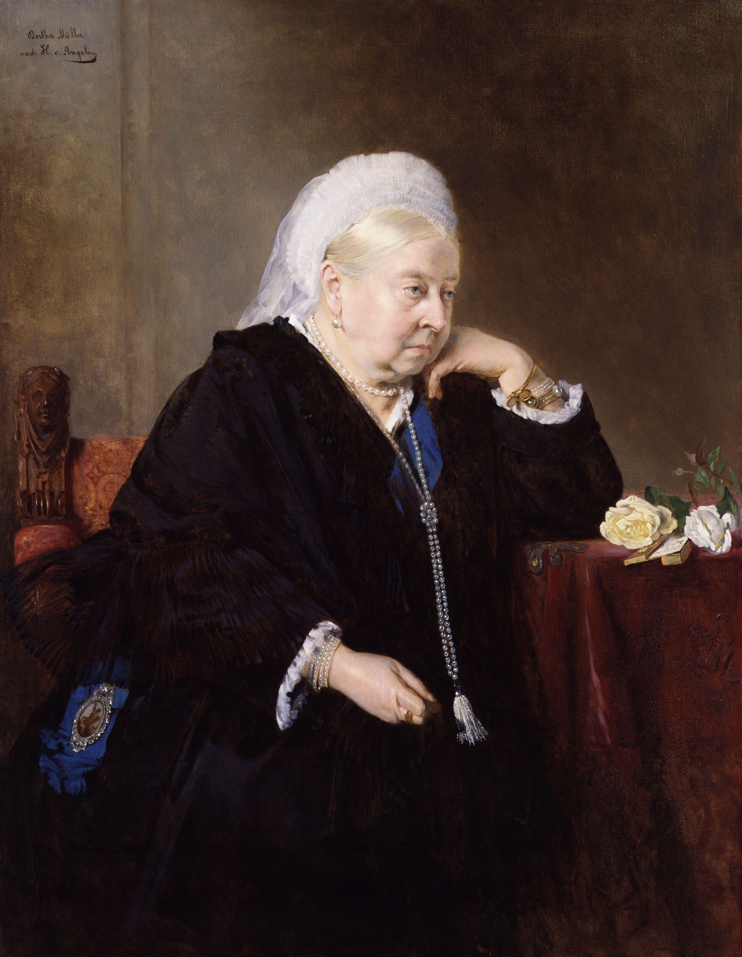 Queen Victoria, by Bertha Müller after Heinrich von Angeli (died 1925). All images in this batch have been confirmed as author died before 1939 according to the official death date listed by the NPG.